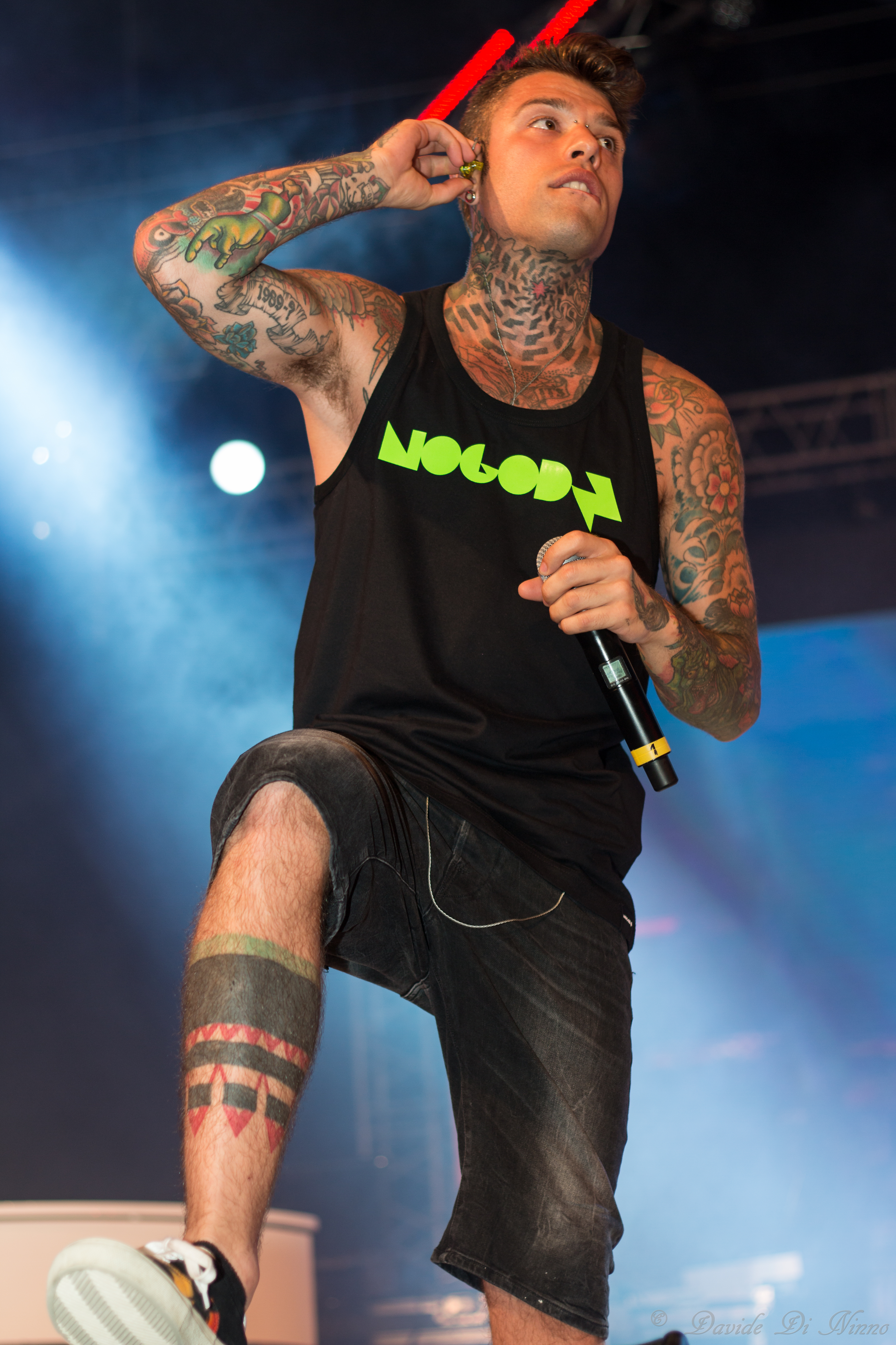 Italian rapper Fedez during his performance on Deejay On Stage in Riccione on 3 August 2016